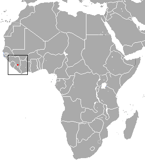 Rhinolophus ziama range IUCN: Congosorex phillipsorum Stanley, Rogers & Hutterer, 2005 (old web site) (Critically endangered)